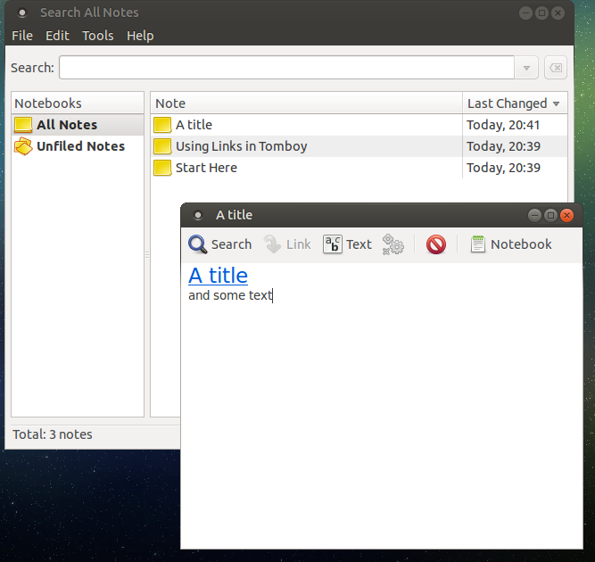 A screenshot of Tomboy 1.15.4 running under Ubuntu MATE